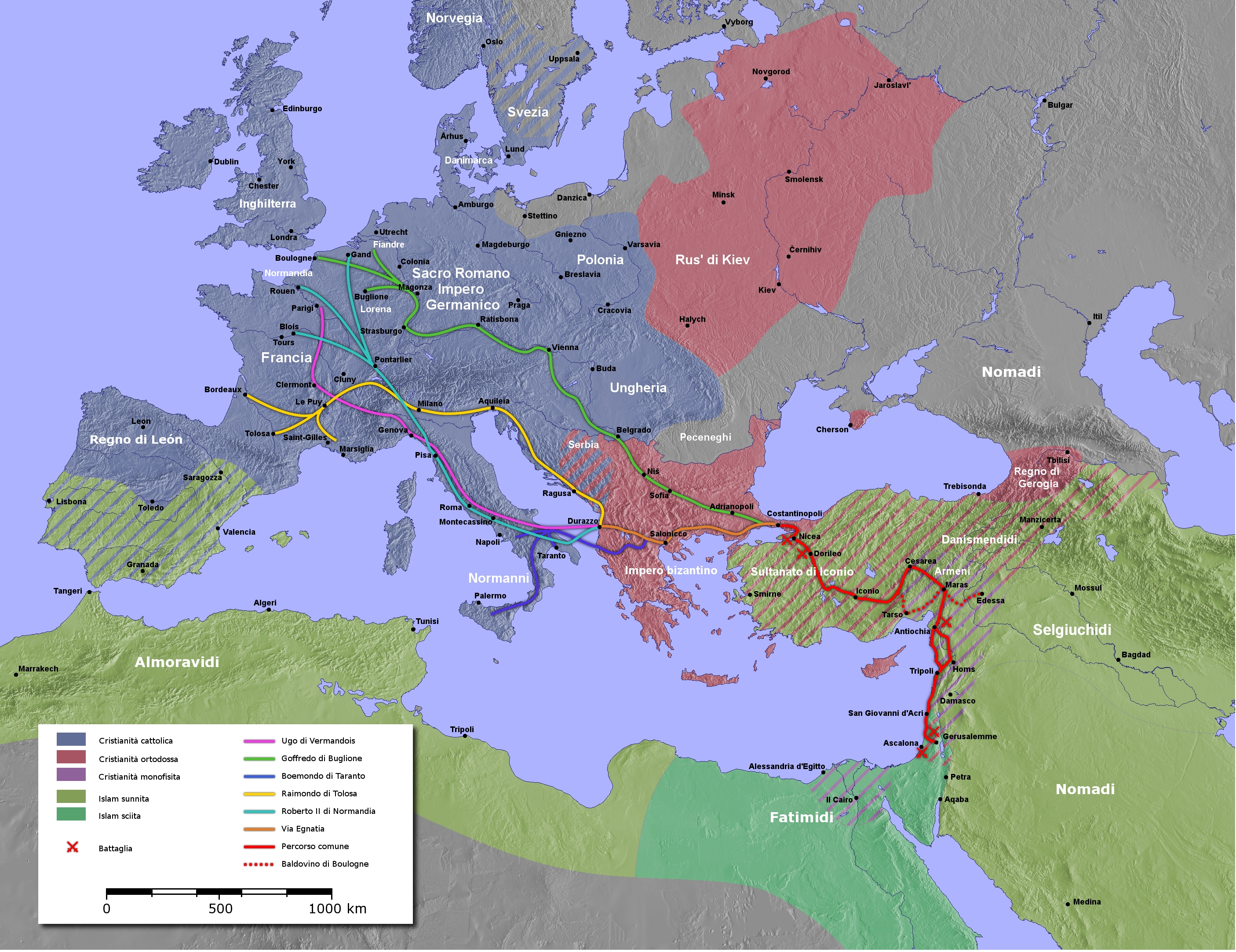 Map of the first crusade. Translation of this map from the German Wikipedia.